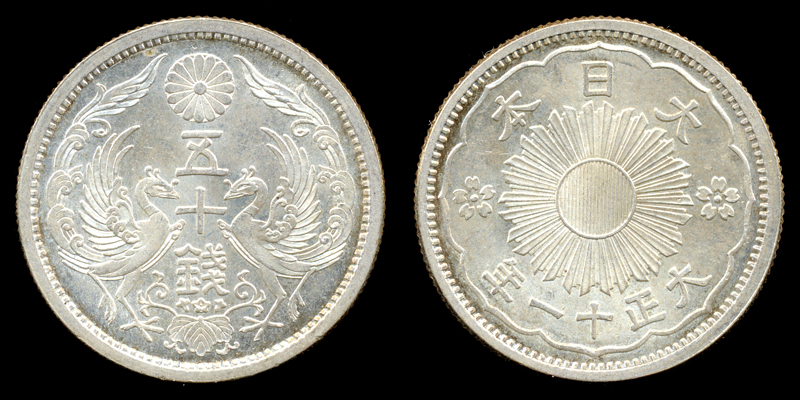 50sen-T11